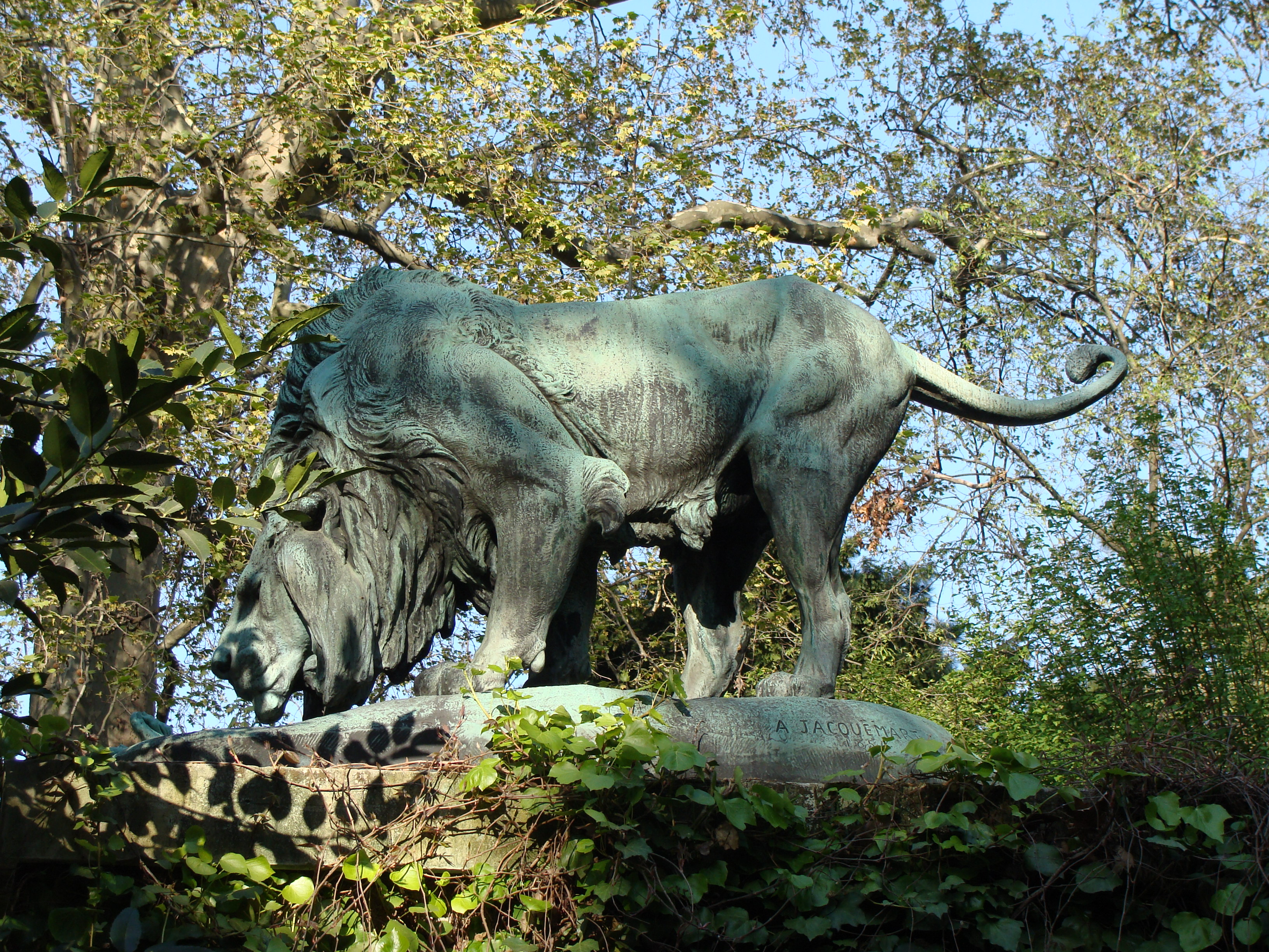 one of the two statues of lions (1857) by Henri-Alfred Jacquemart (1824-1896), Jardin des Plantes, Paris